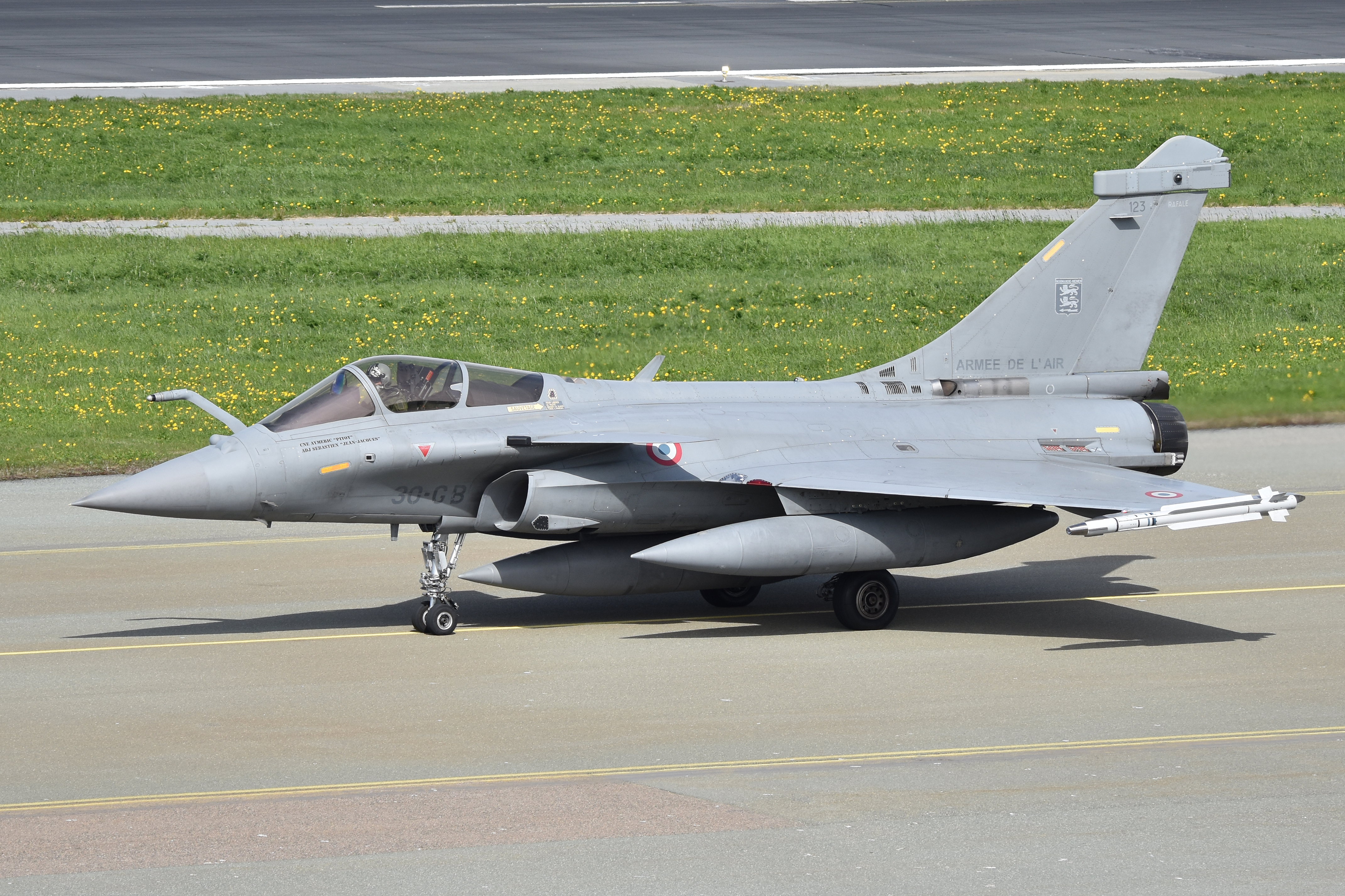 c/n unknown Military callsign F-UHGB Operated by EC02.030 ‘Normandie-Niemen’, French Air Force, a multi-role fighter unit based at Mont-de-Marsan. Seen taxiing out to depart on a mission during Arctic Challenge Exercise 2019 (ACE19). Bodø Main Air Station, Northern Norway 24th May 2019